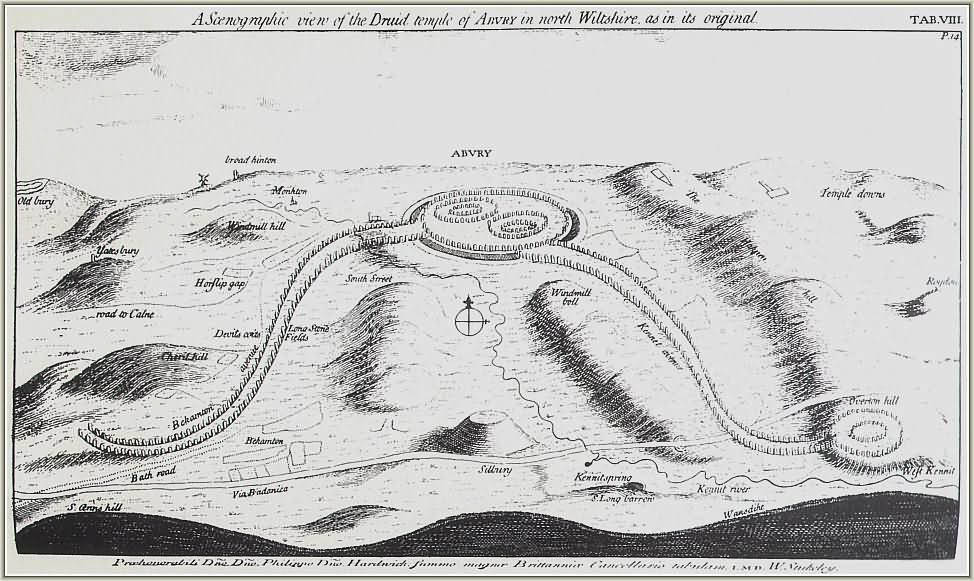 The Sanctuary in 1723 by William Stukeley